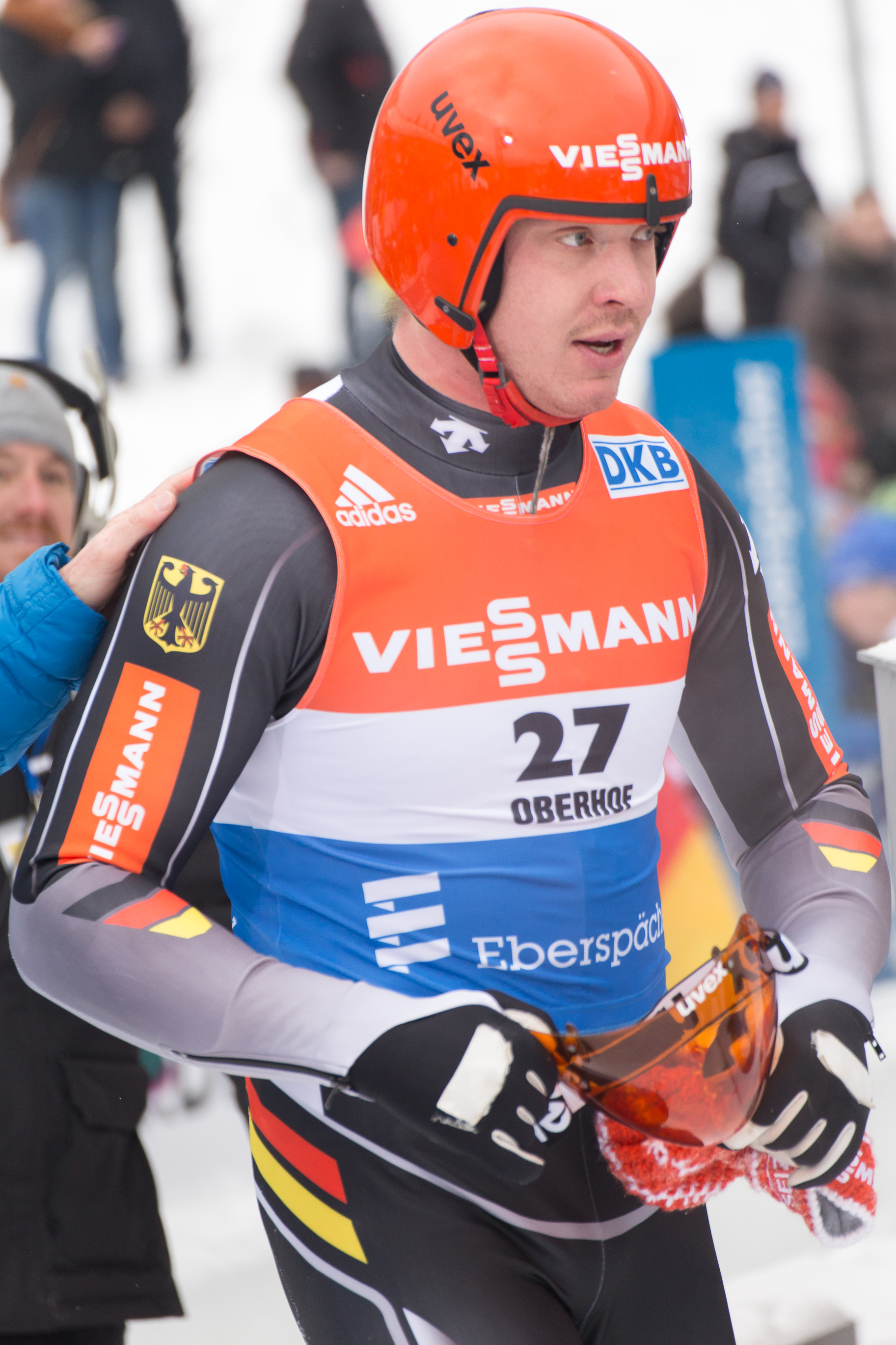 Luge world cup Oberhof 2016-01-16